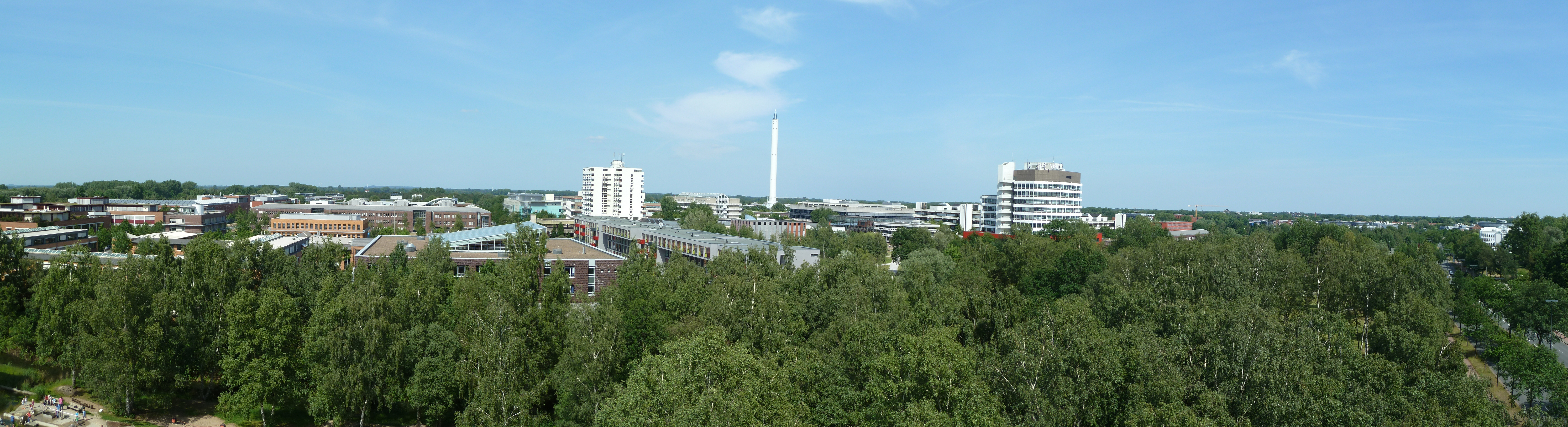 Panorama of the University of Bremen, taken from the "Turm der Lüfte"